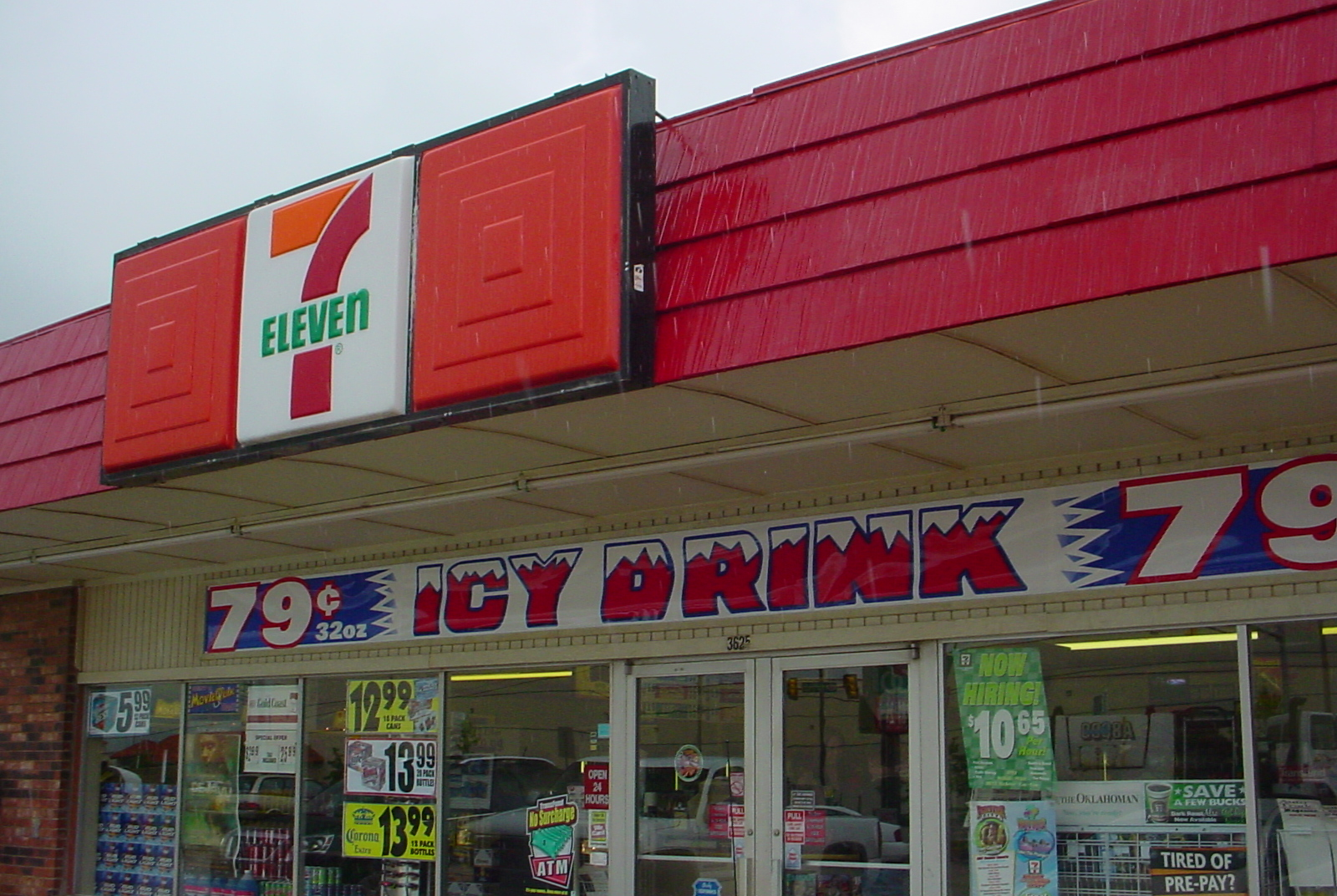 Front Of Oklahoma 7-Eleven With Icy Drink Ad Banner